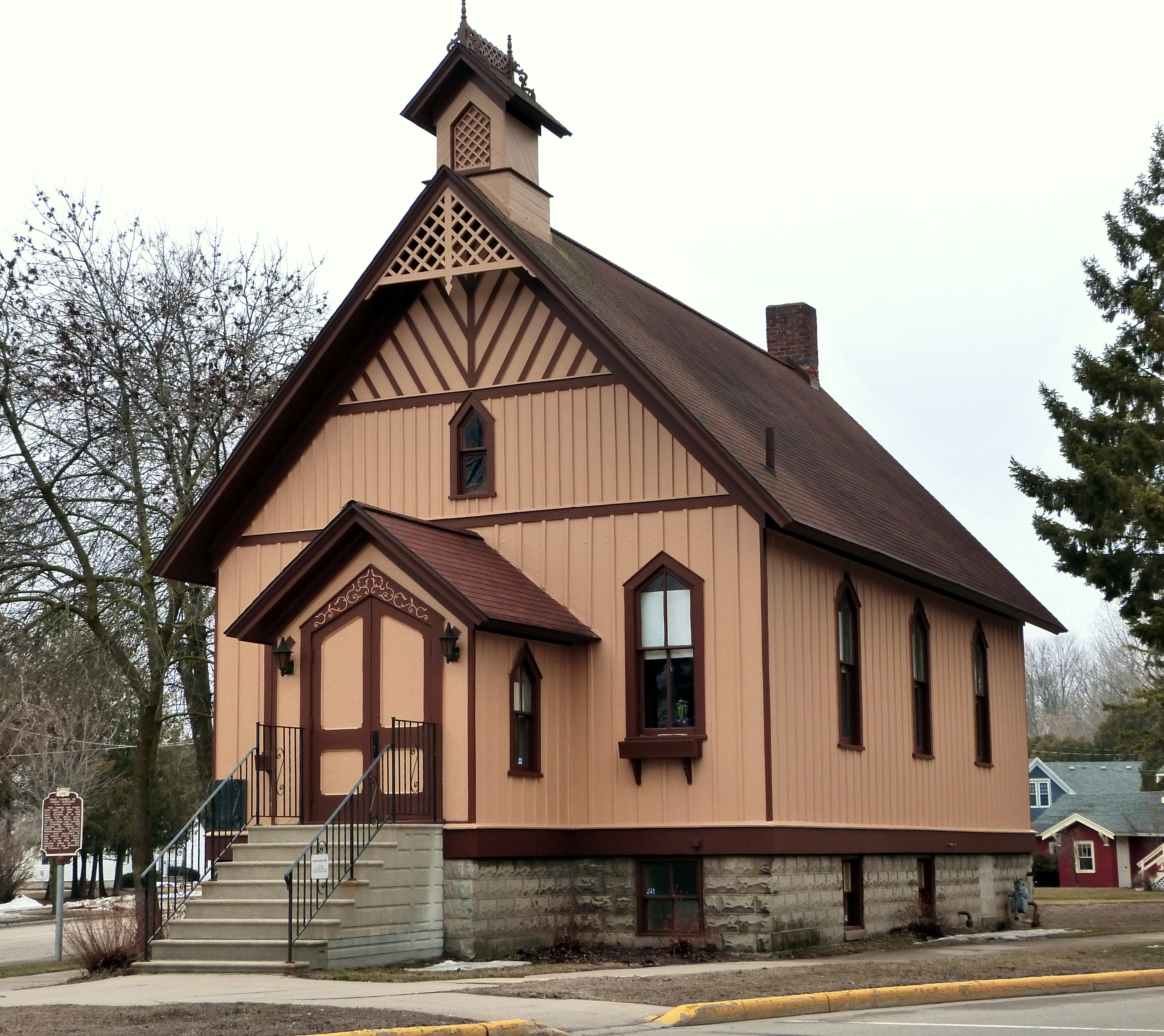 The historic First Church of Christ, Scientist (built 1886), located at 423 Chicago Street in Oconto, Wisconsin, United States, is listed on the US National Register of Historic Places.